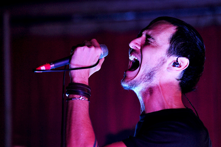 Dead Letter Circus @ Capitol (12/6/2010)